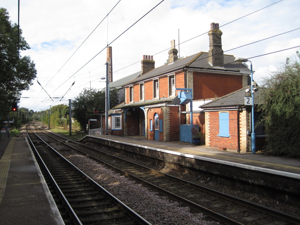 Opened in 1854 by the Eastern Union Railway on its line from Colchester to Harwich. View west towards Manningtree and Colchester.